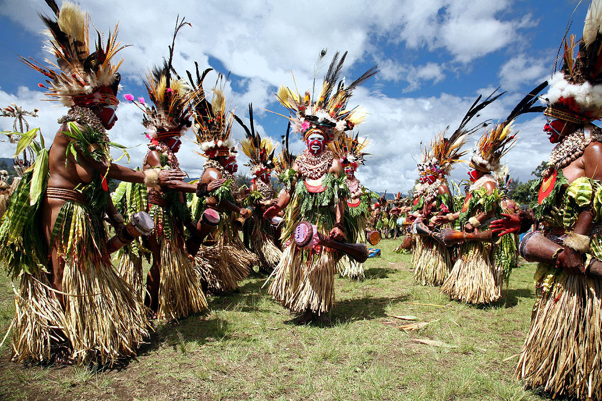 A typical sing-sing scene of Papua New Guinea, a gathering of different tribes singing and dancing with their unique make-up and traditional costumes. Photo taken in Wabag, Enga Province.